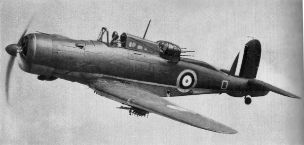 Blackburn Roc Fleet fighter Picture prepared for Wikipedia by Keith Edkins in April 2004.